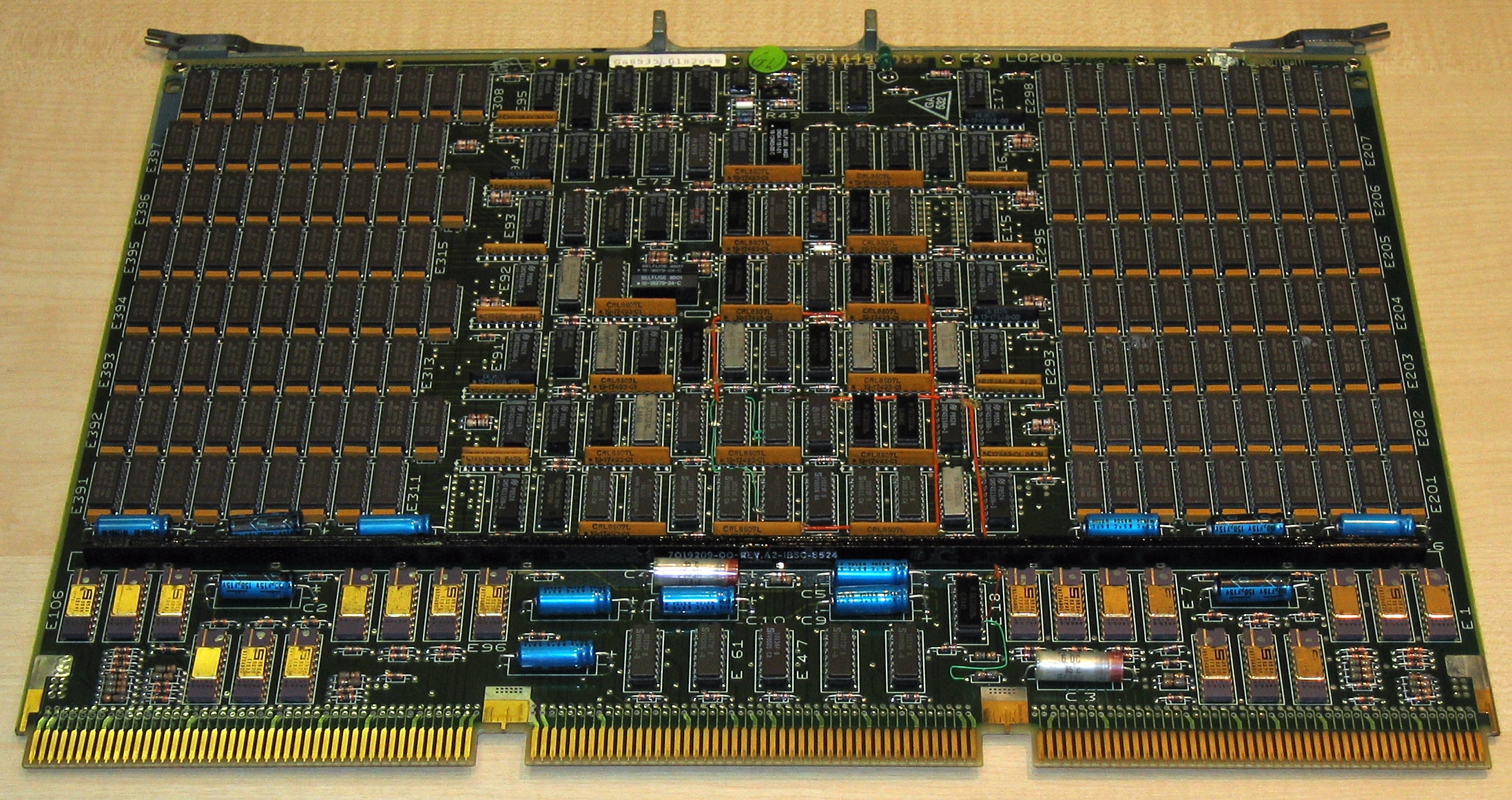 4 Mb VAX 8600 memory board. A four-megabyte RAM card measuring about 56 by 38 centimeters (twenty-two by fifteen inches); made for the VAX 8600 minicomputer (ca. 1986). Dual in-line package (DIP) integrated circuits populate nearly the whole board; the RAM chips are the most common kind, and located in the rectangular areas to the left and right.